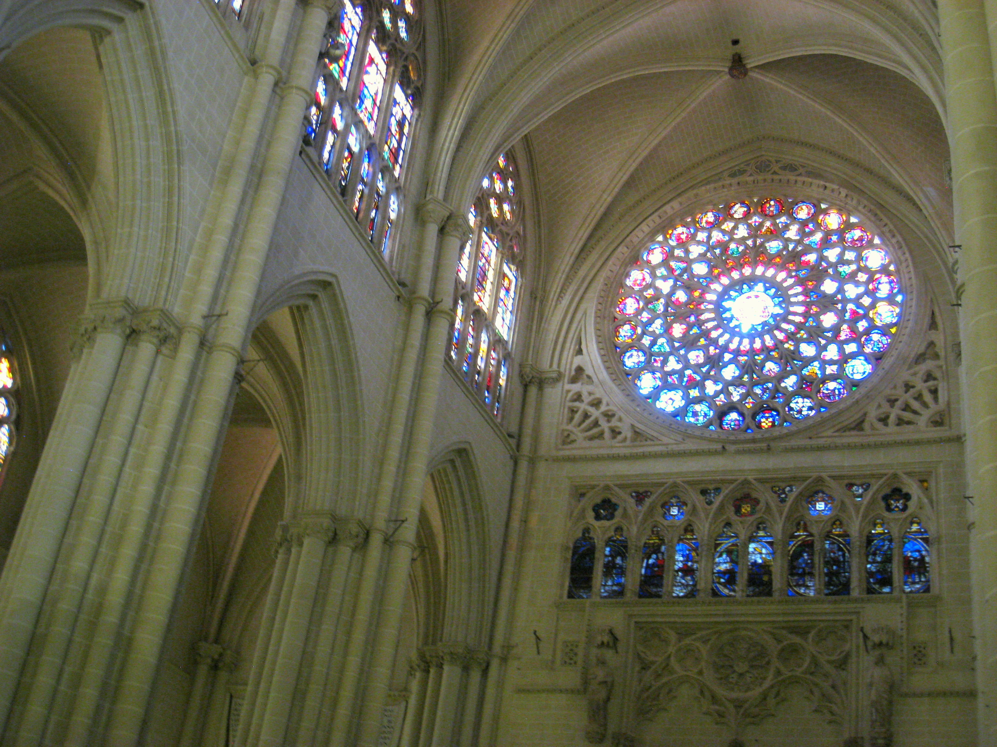 Cathedral of Toledo, Spain.